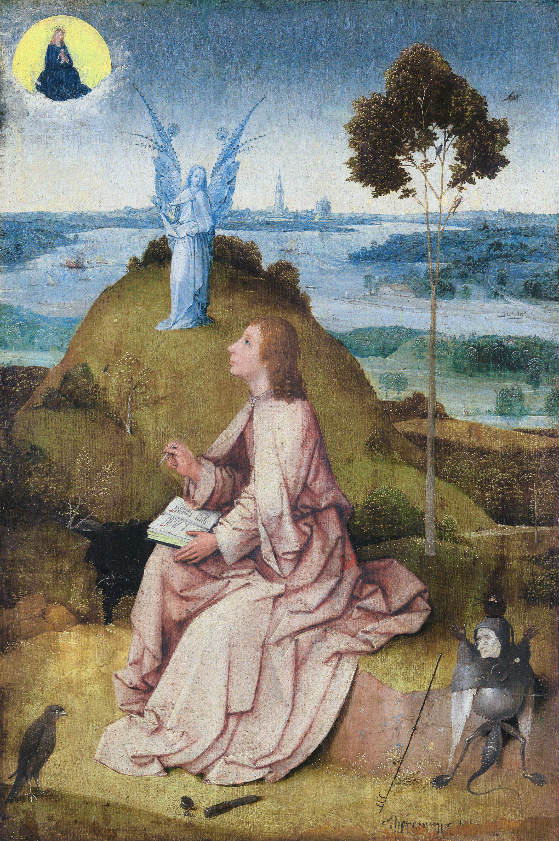 Front of a two-sided painting. For the reverse, see File:Jheronimus Bosch Scenes from the Passion (full).jpg.